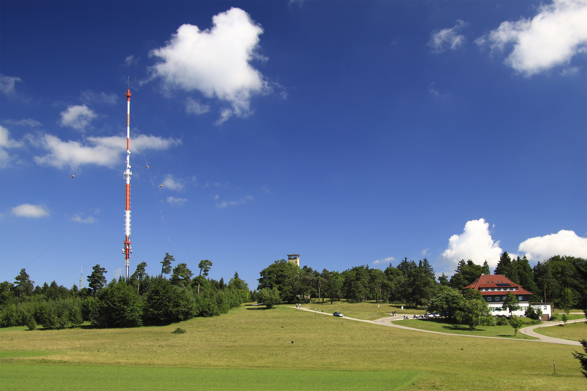 Raichberg mountain (Swabian Alb, 956m) with broadcast transmitter close to Albstadt-Onstmettingen, Germany